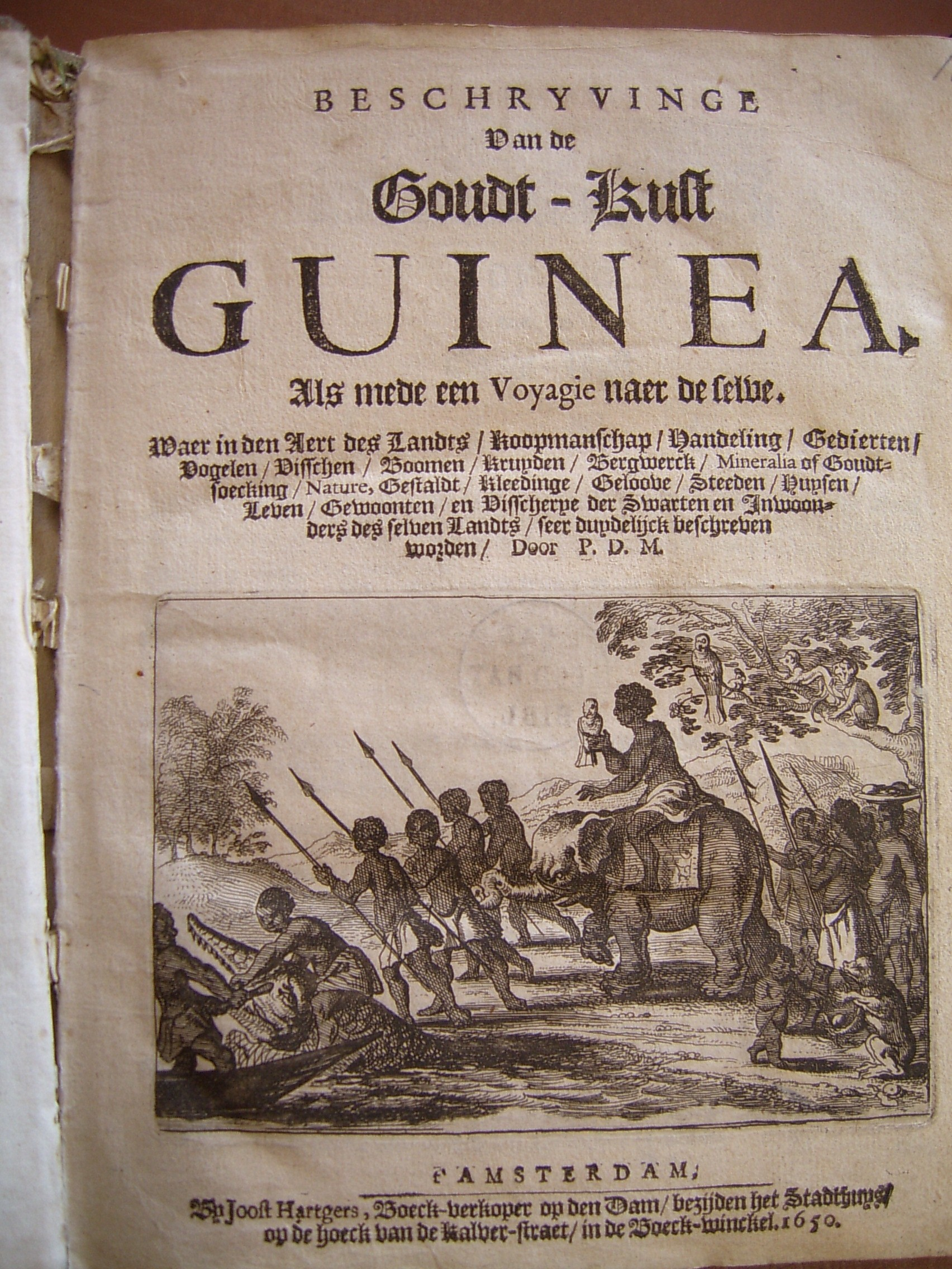 Titlepage of a 1650 reprint of 1602 work by Pieter de Marees